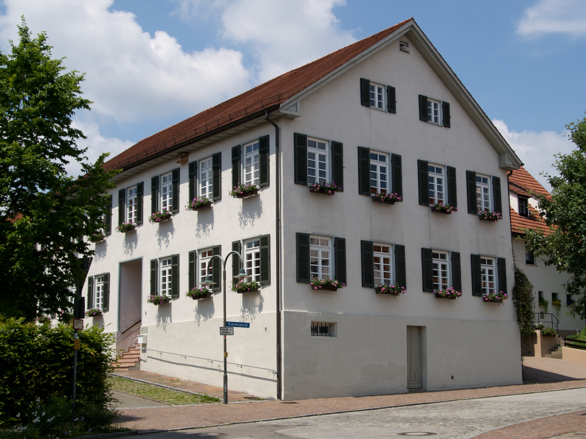 Library in Kusterdingen.